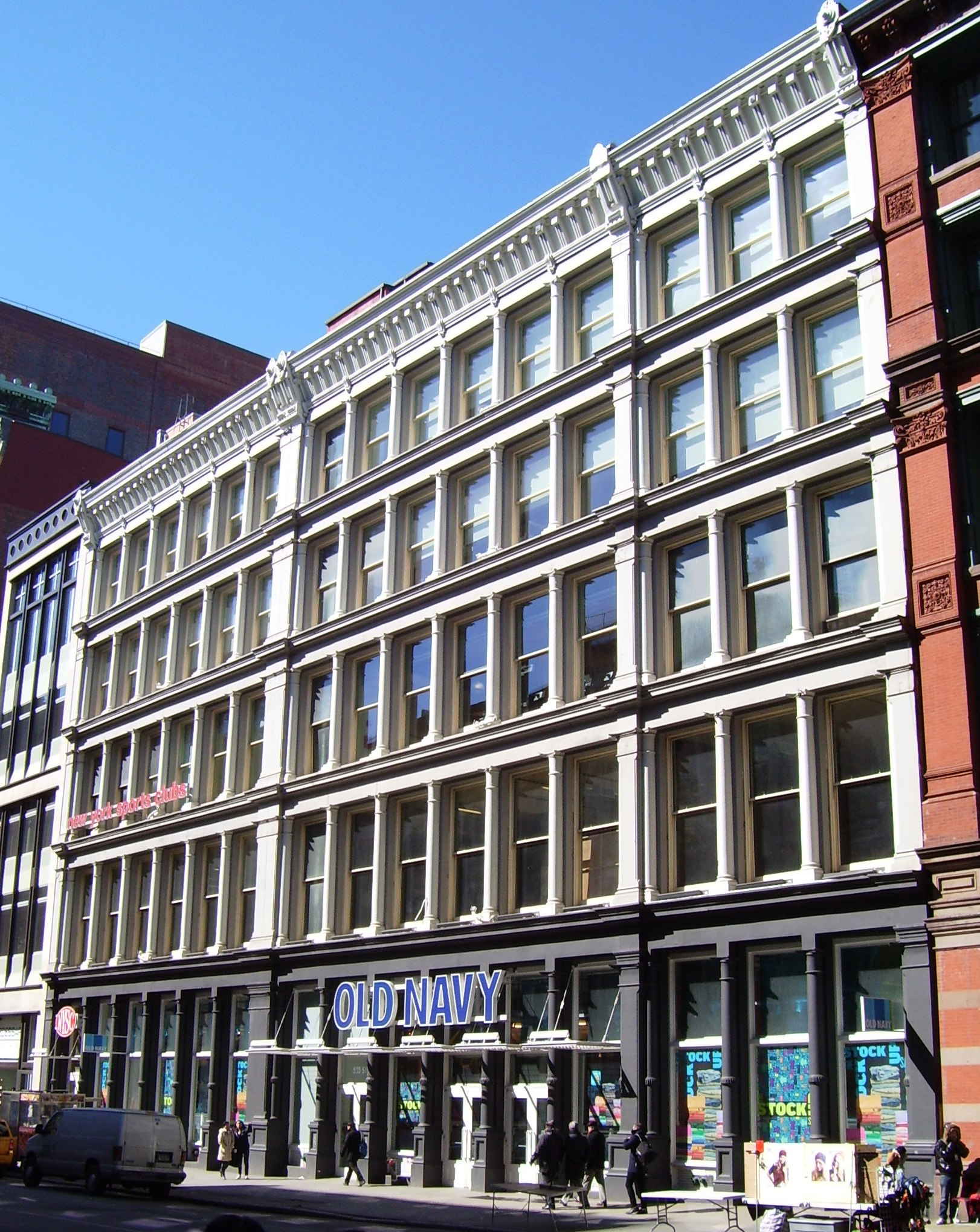 503-511 Broadway, between Broome and Spring Streets, in the SoHo neighborhood of Manhattan, New York City, were built in 1878-79 and designed by John B. Snook. These three warehouses have cast-iron facades by Cornell Iron Works, and were built for Loubat Stores. (Source: AIA Guide to NYC (4th ed.))